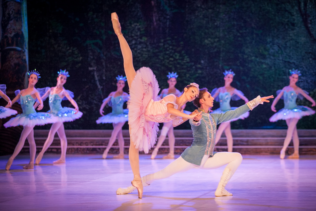 "Sleeping Beauty"; composed by Pyotr Ilyich Tchaikovsky; libretto written by Ivan Vsevolozhsky, based on Charles Perrault's "La Belle au bois dormant", according to the original choreography of Marius Petipa, directed by Vladimir Logunov, Ballet of the Serbian National Theatre, Novi Sad, 2012/13; Ana Đurić, Liviu Har Srpski (latinica): „Uspavana lepotica” Petra Iliča Čajkovskog, libreto Ivan Vsevoložski prema istoimenoj bajci Šarla Peroa, prema originalnoj koreografiji Marijusa Petipaa u režiji Vladimira Logunova, Balet Srpskog narodnog pozorišta, Novi Sad, 2012/13; Ana Đurić, Liviu Har Српски (ћирилица): „Успавана лепотица“ Петра Илича Чајковског, либрето Иван Всеволожски према источиној бајци Шарла Пероа, према оригиналној кореографији Маријуса Петипаа у режији Владимире Логунова, Балет Српског народног позоришта, Нови Сад, 2012/13; Ана Ђурић, Ливиу Хар